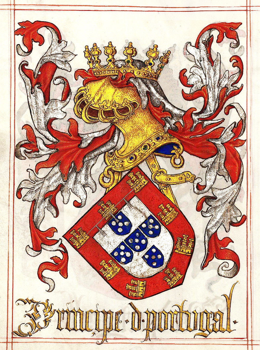 Prince of Portuga